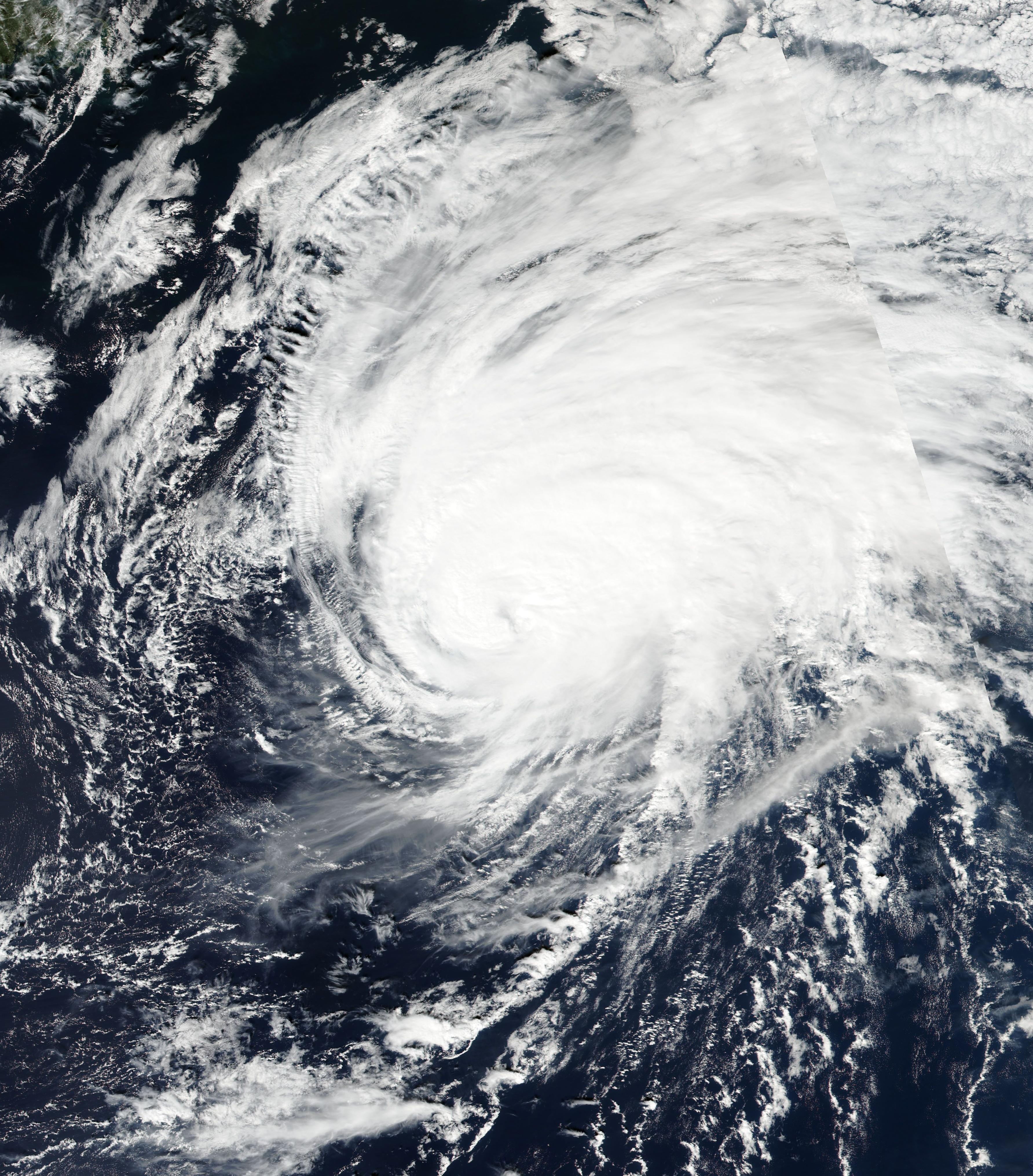 Hurricane Nicole (15L) as a Category 3 major hurricane shortly after peak on October 13, 2016